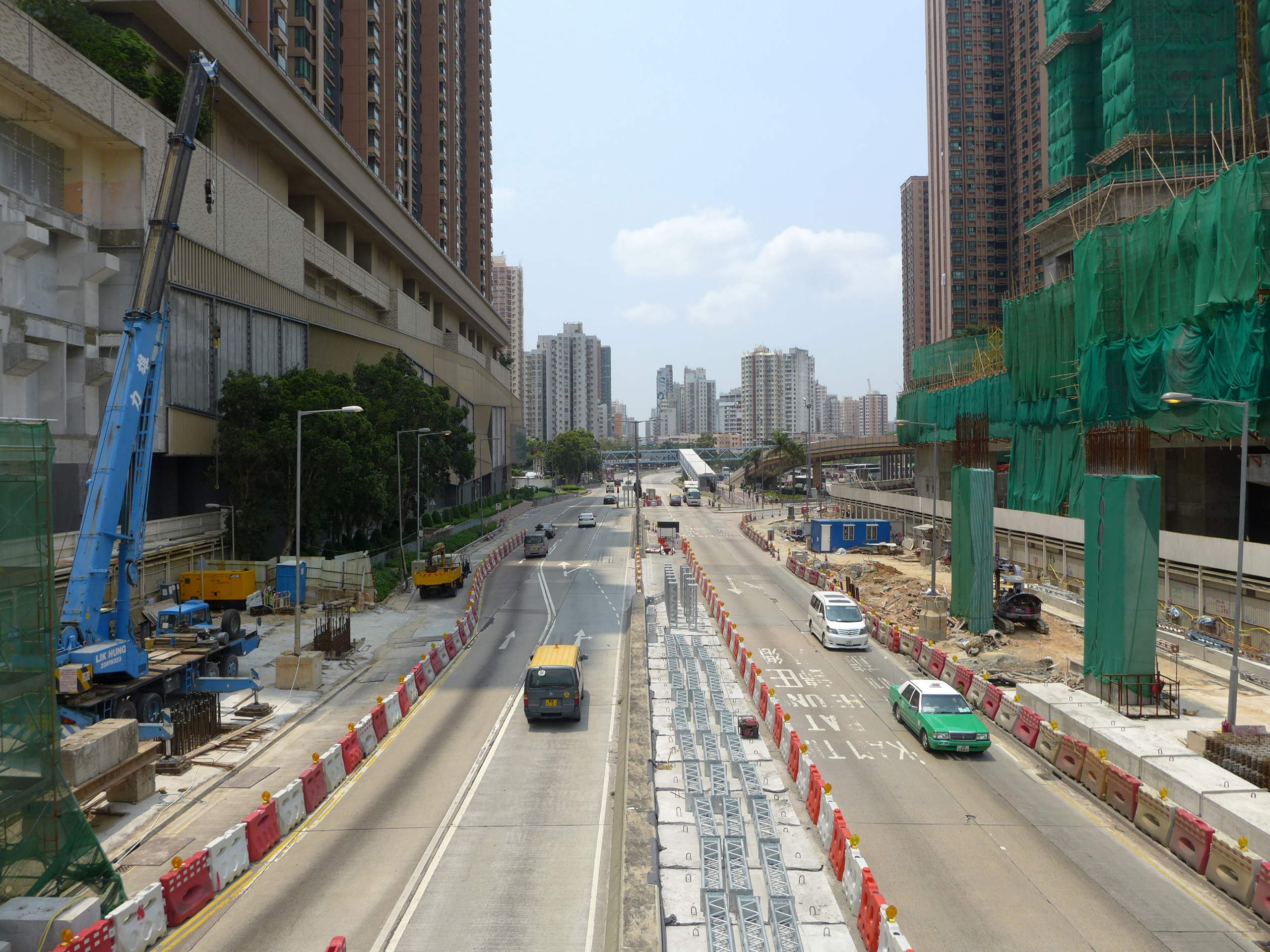 Castle Peak Road Yuen Long Section near YOHO Midtown